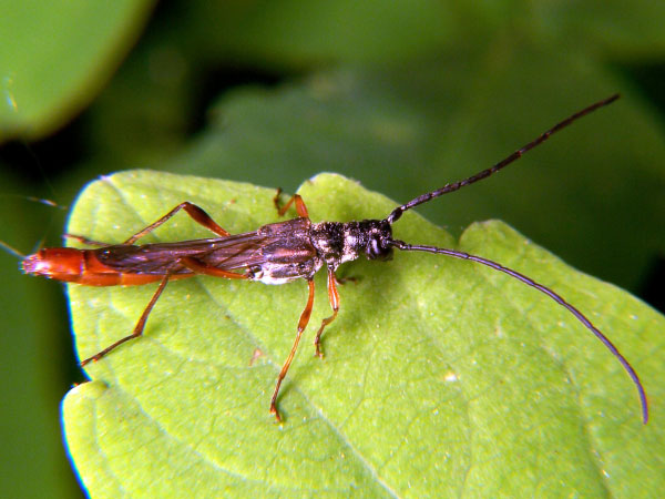 jpeg image, longhorned beetle Necydalis melita